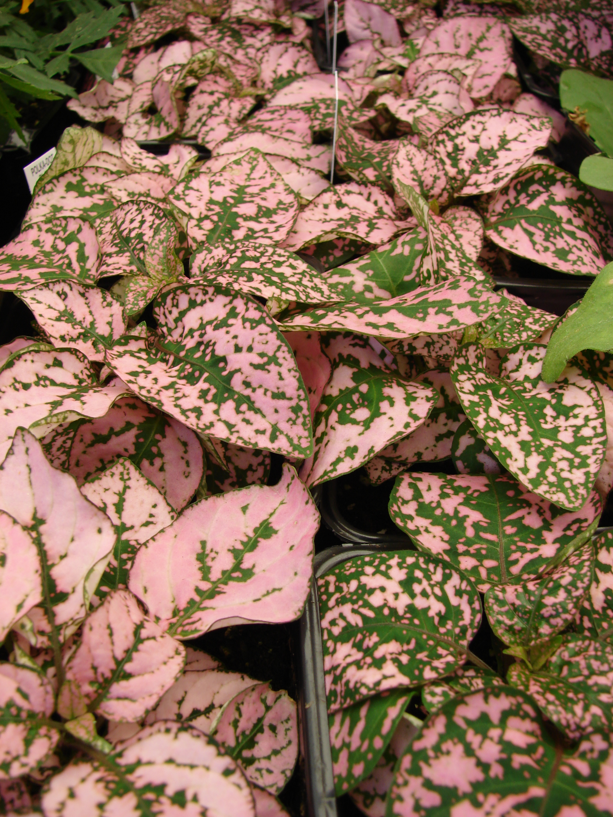 Hypoestes phyllostachya (habit). Location: Maui, Walmart Kahului